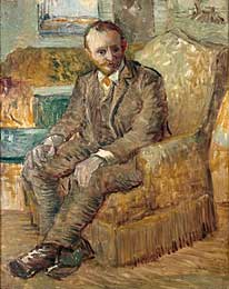 Portrait of Alexander Reid, Scottish art dealer and friend of Vincent van Gogh